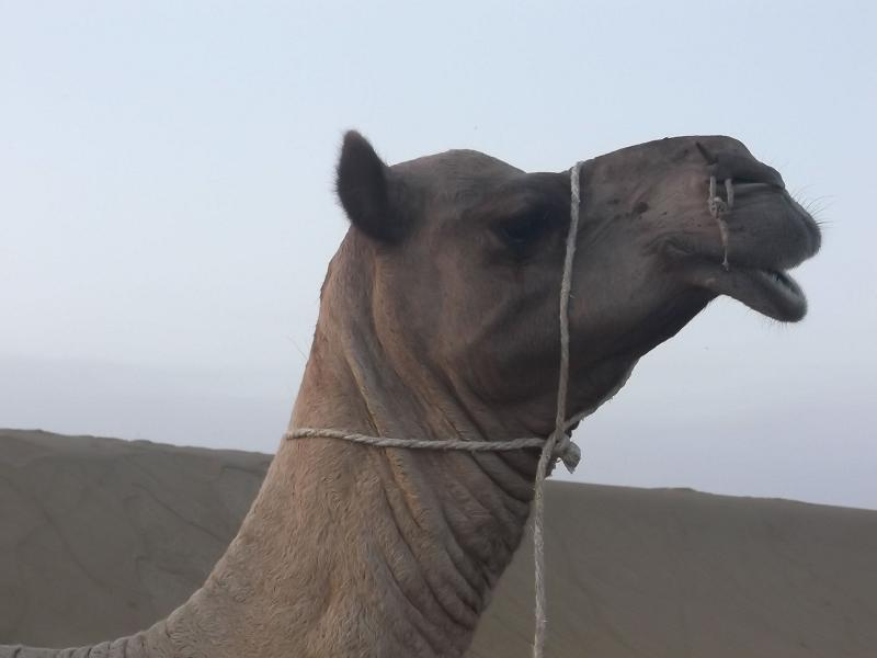 Dromedary or Arabian camel (Camelus dromedarius) in Thar Desert, India.